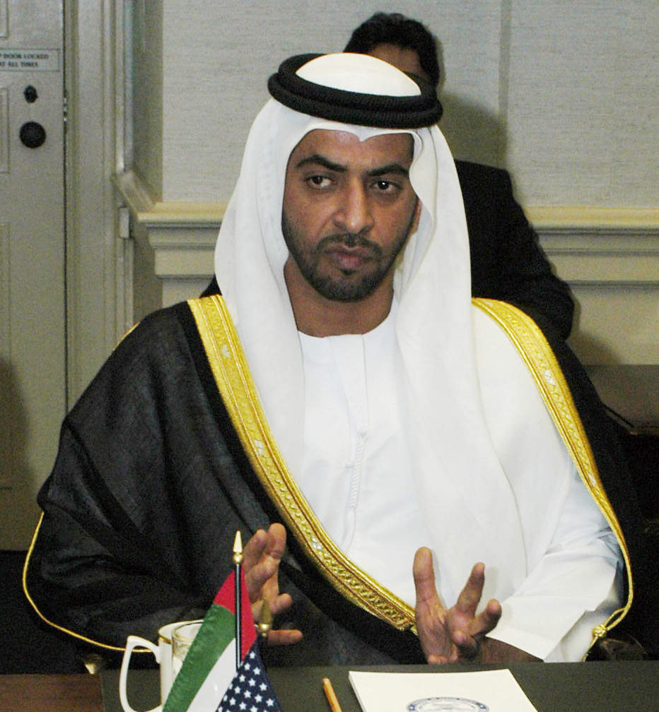 Deputy Prime Minister and Minister of State for Foreign Affairs Sheikh Hamdan bin Zayed, of the United Arab Emirates, at a meeting with Deputy Secretary of Defense Paul Wolfowitz in the Pentagon on Oct. 30, 2003. Accompanying the Deputy Prime Minister is Ambassador of the United Arab Emirates Al Asri Al Dahri.